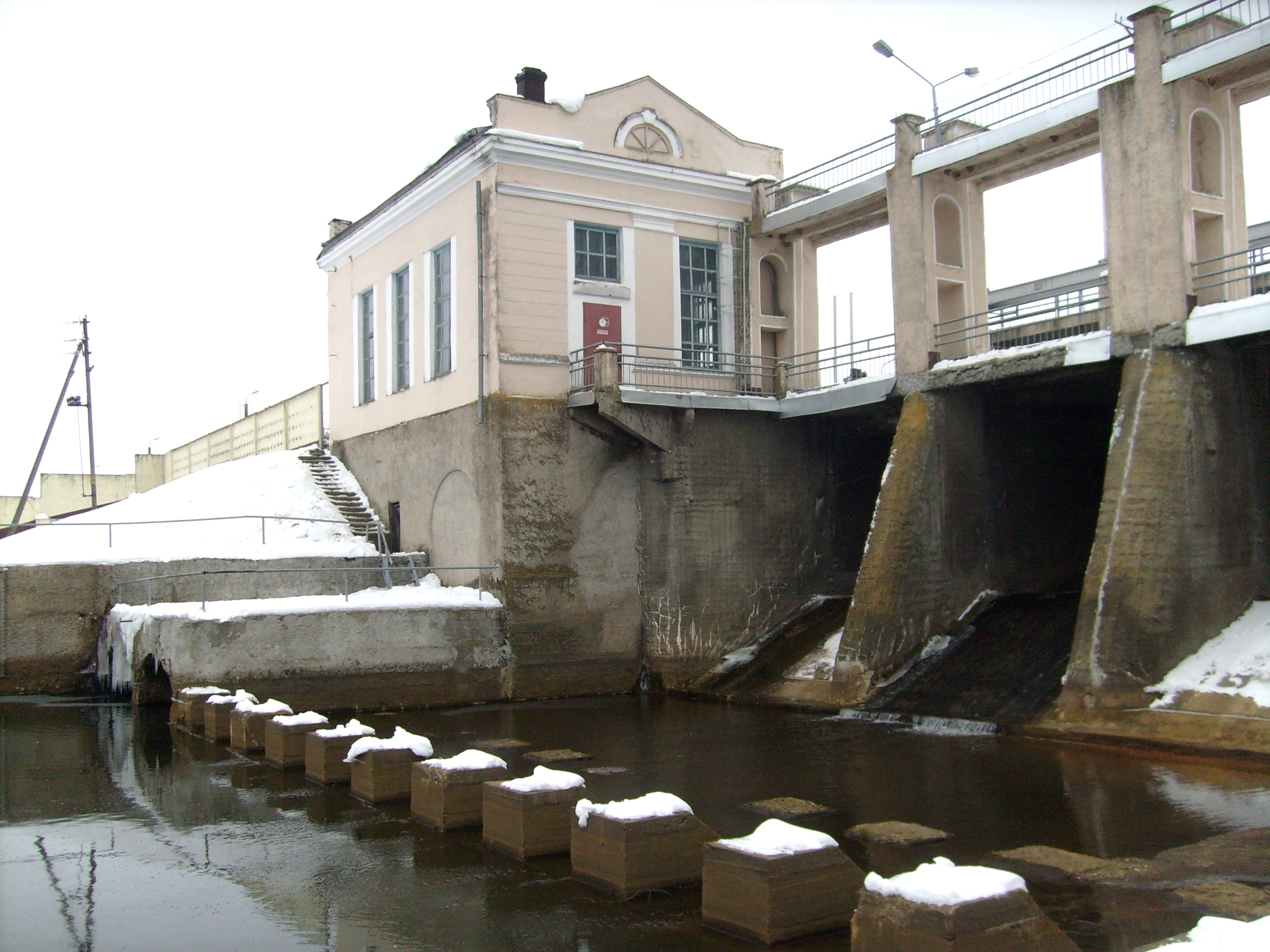 Teterino Hydroelectric Power Station